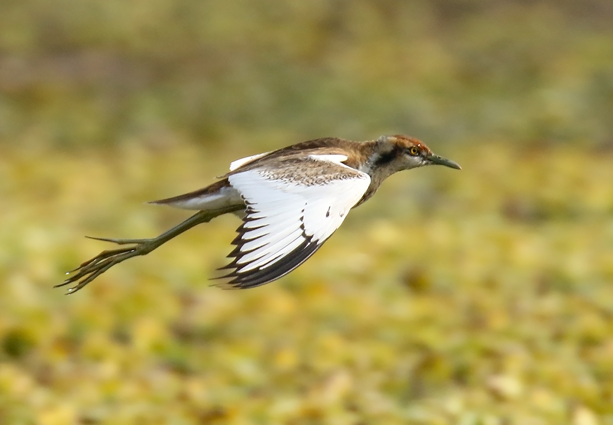 Pheasant-tailed Jacana (Hydrophasianus chirurgus) captured at Maralla, Sialkot, Punjab, Pakistan with Canon EOS 7D Mark II